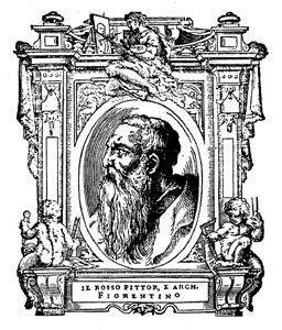 Illustratio from "Le Vite" by Giorgio Vasari, edition of 1568. For the artist portrayed see filename